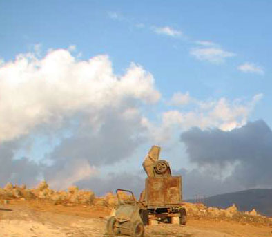 Concrete mixer destroying the central hill of the Aaiha plain